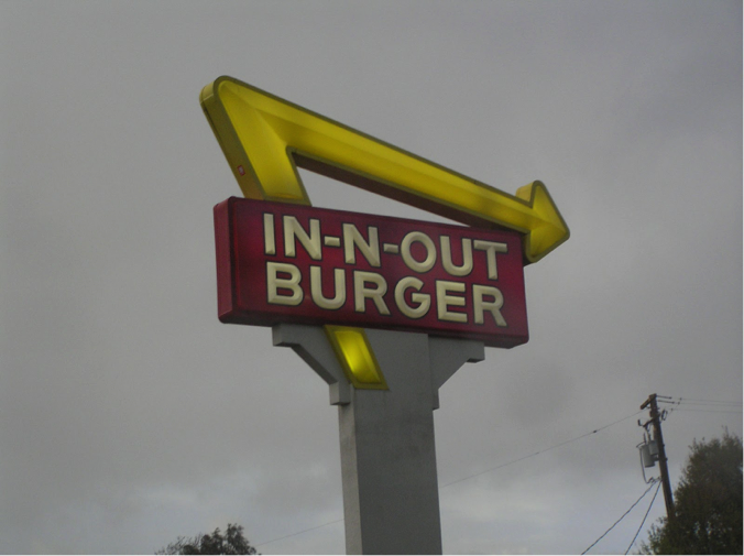 fast food